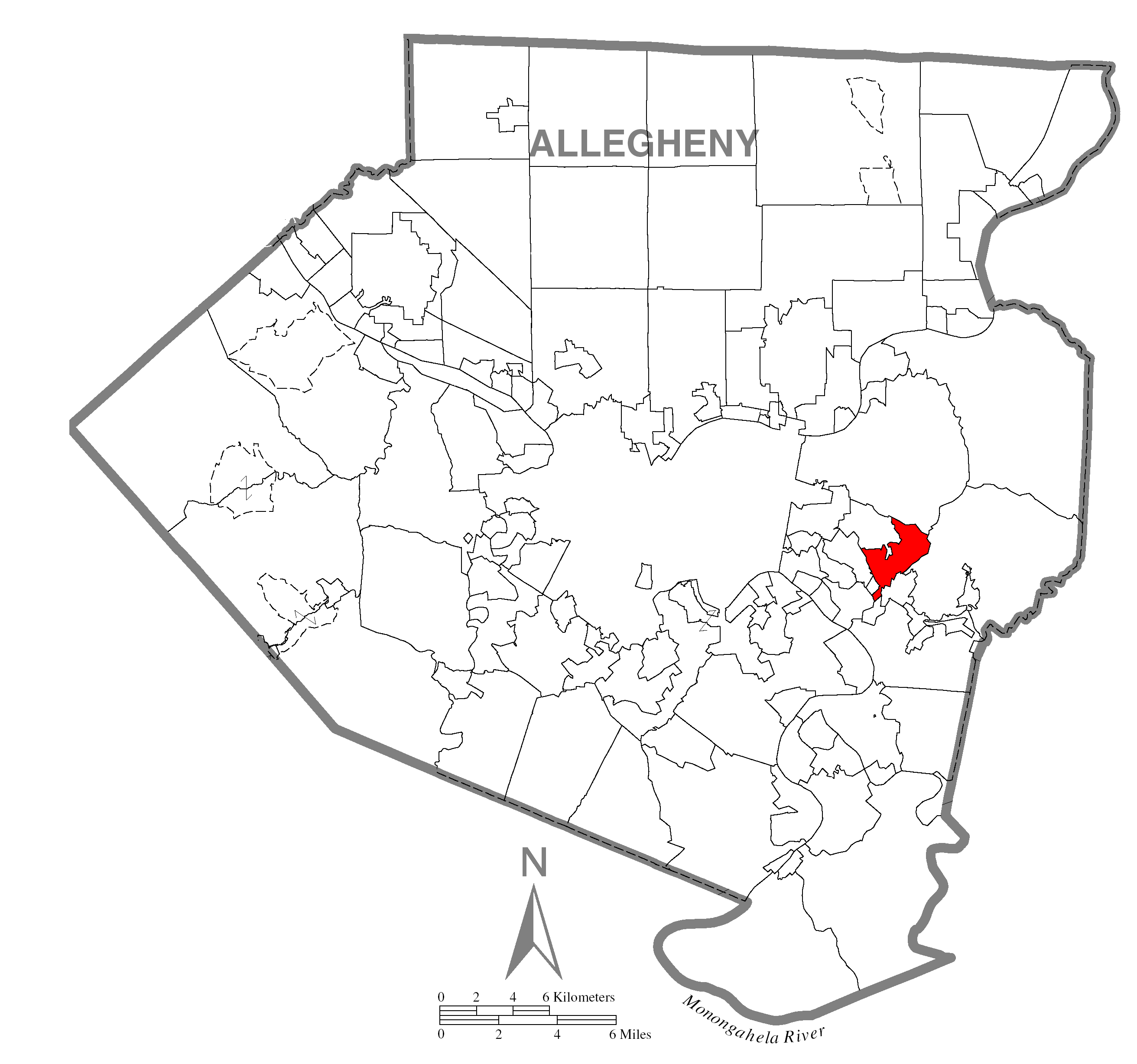 A map of Allegheny County showing Wilkins Township, Pennsylvania (alternate) highlighted on the map.